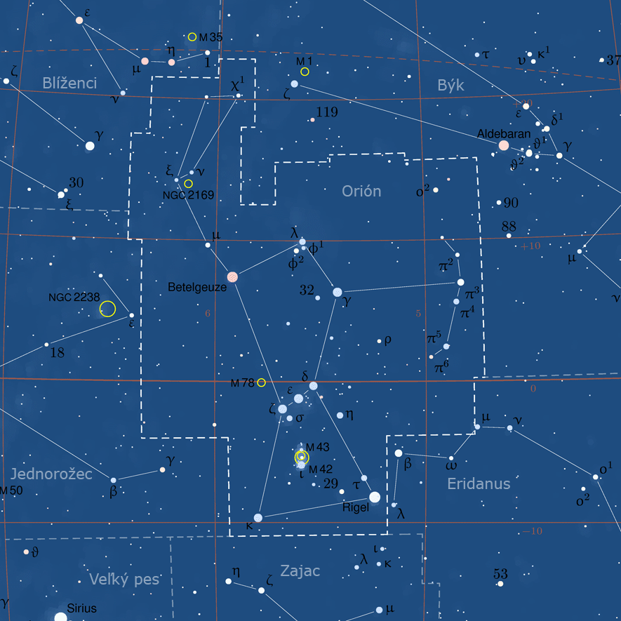 Celestial map of the constellation Orion the Hunter with Slovak titles